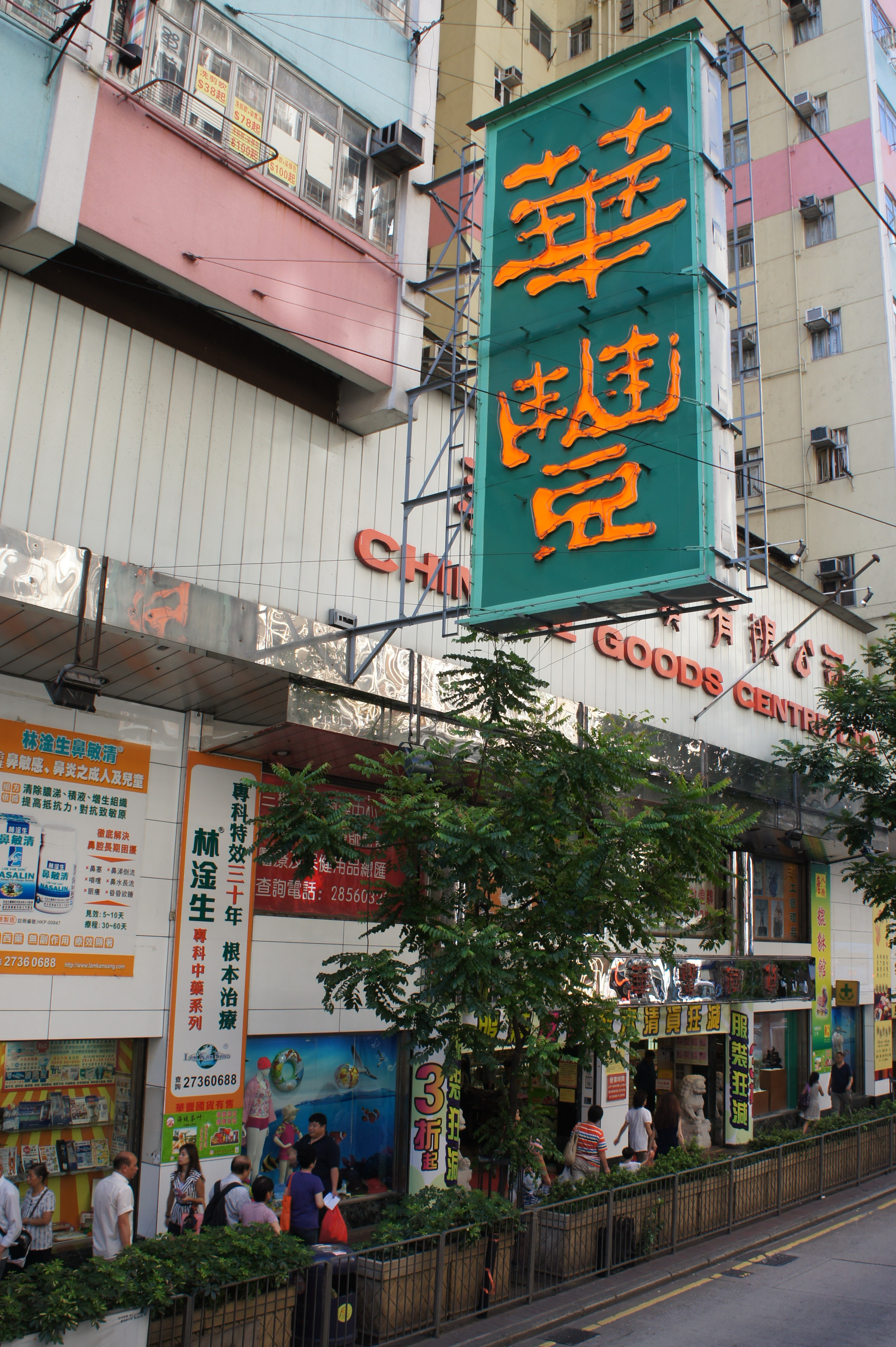 Chinese Goods Centre Ltd., North Point, Hong Kong.